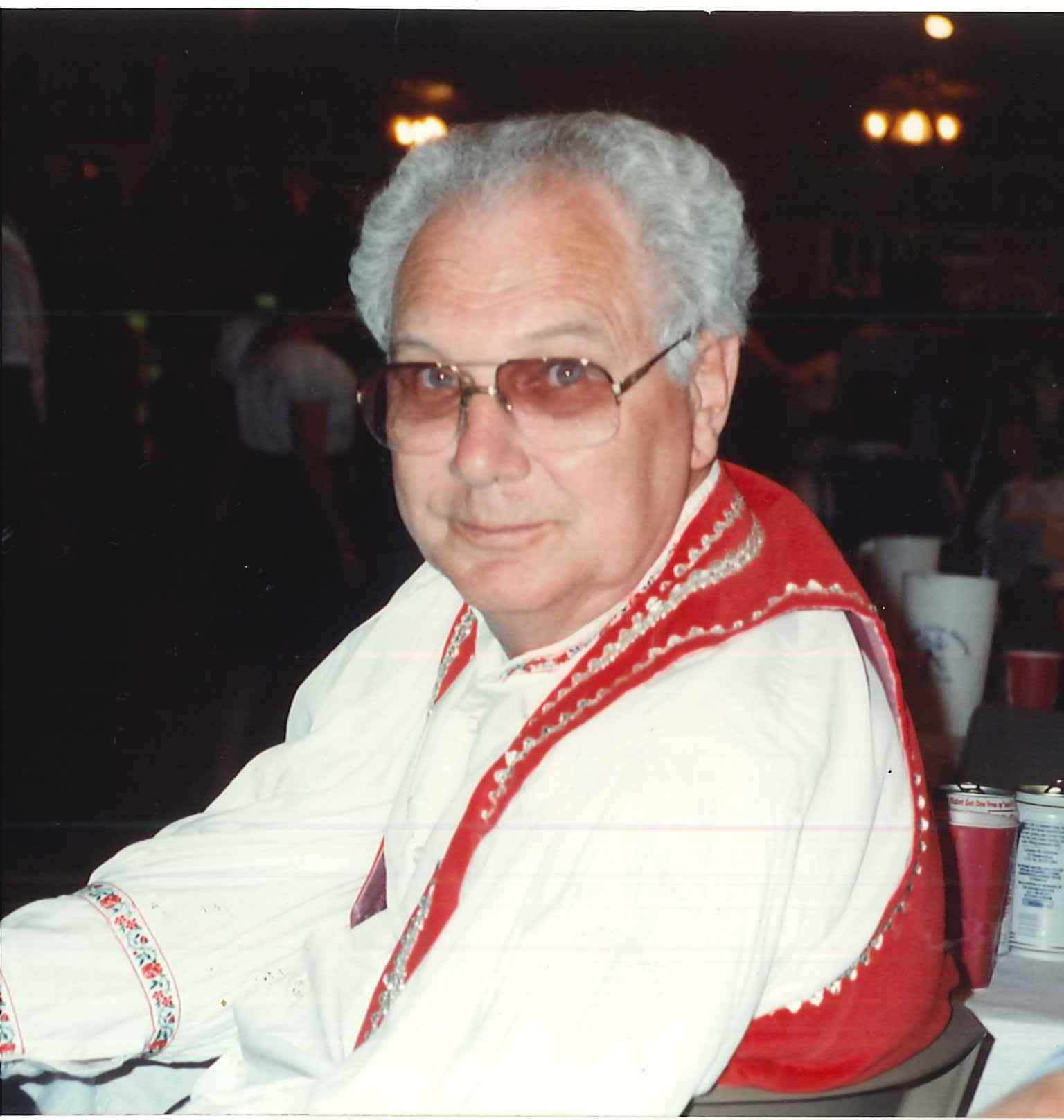 Raymond, one of the founders of the festival